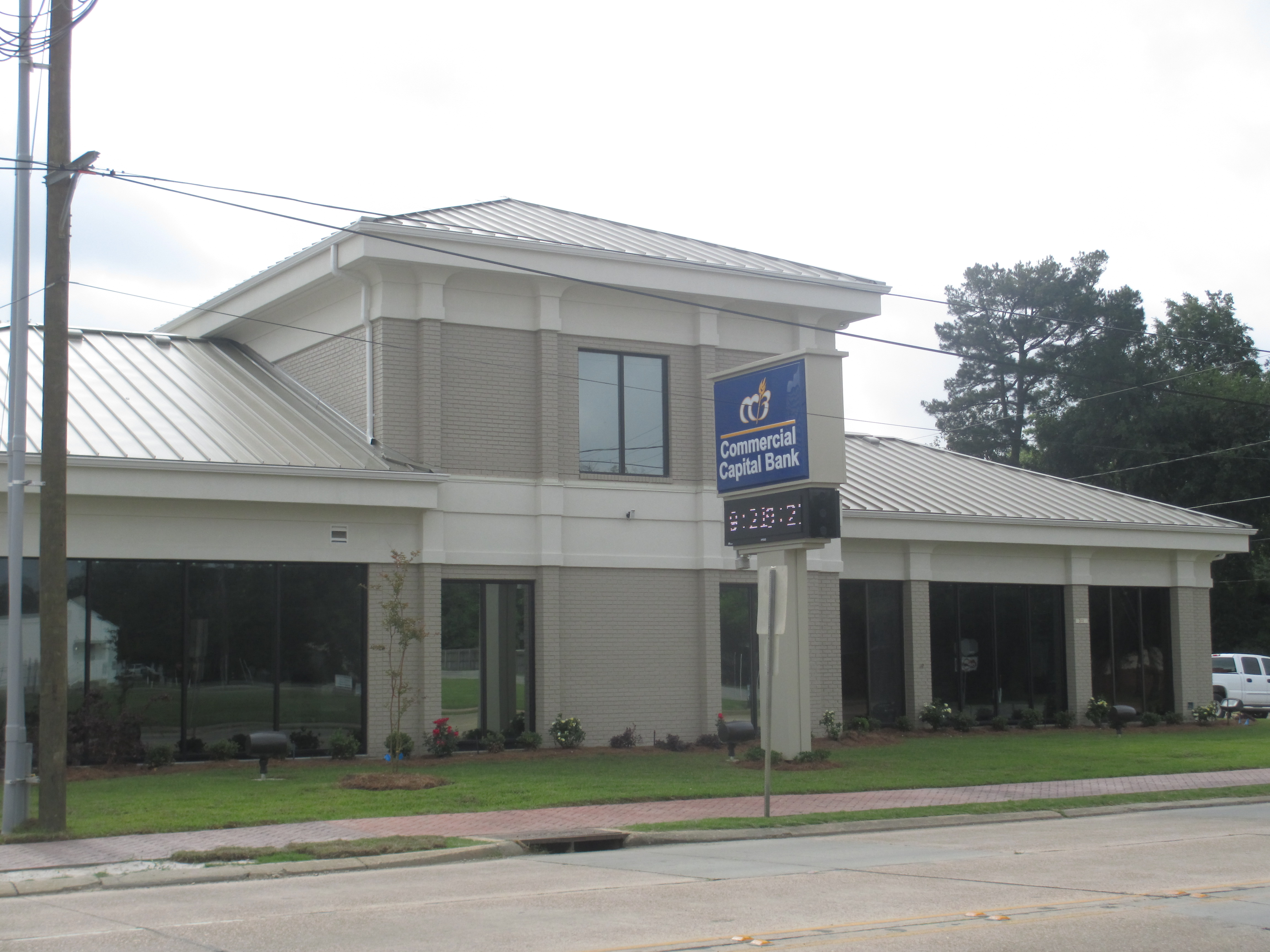 I took photo of Commercial Capital Bank in Delhi with Canon camera.